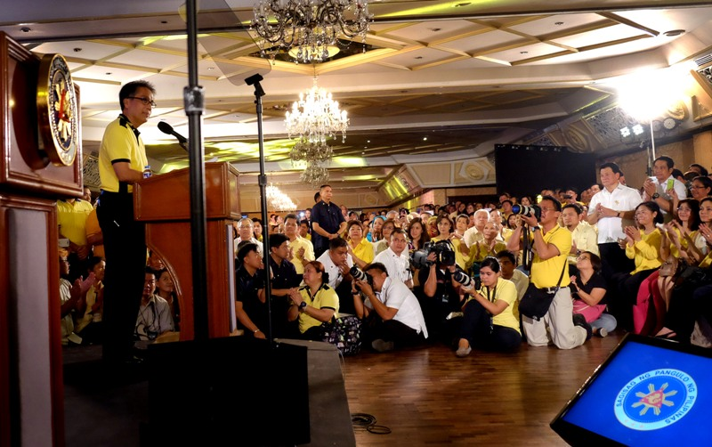 Former Senator and Interior and Local Government Secretary Mar Roxas delivers his acceptance speech as the Liberal Party's standard bearer, endorsed by incumbent President Benigno Aquino III for the 2016 presidential election on 31 July 2015.